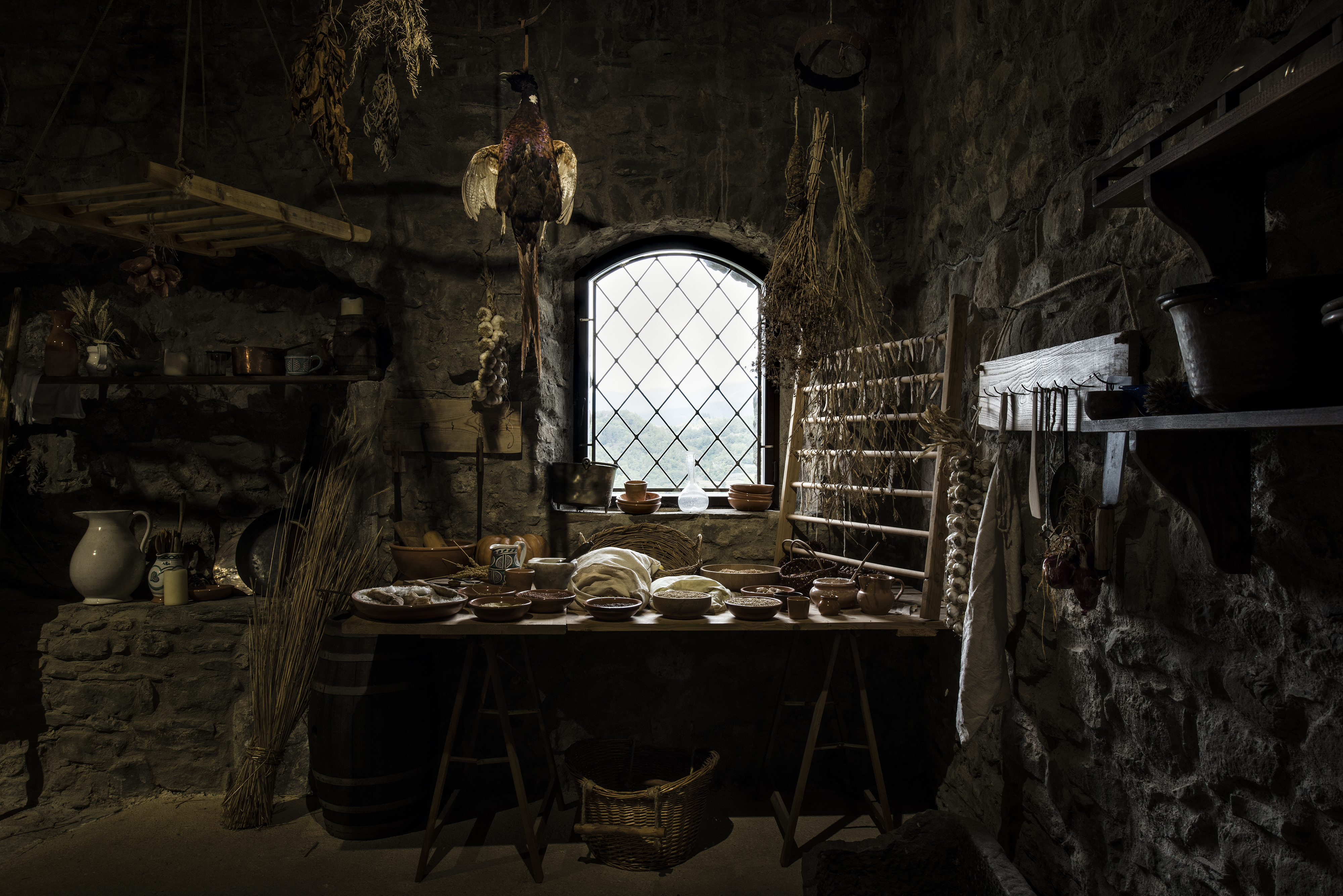 Inside the Verrucole Castle, along the archeopark path